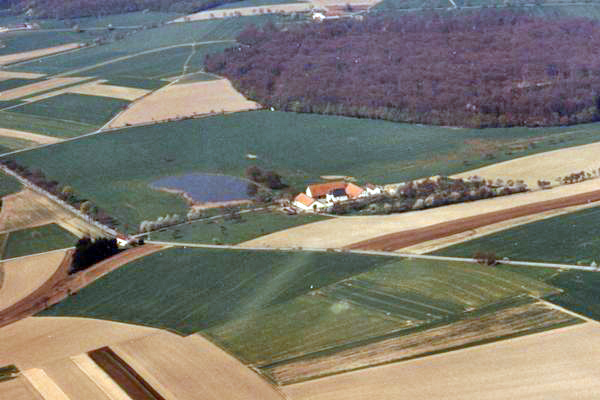 Pleitrange farm, Contern, Luxembourg